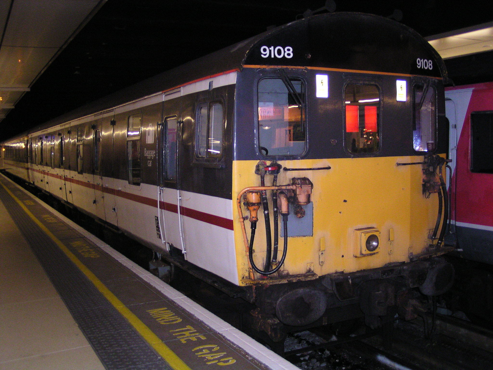 BR Class 489, no. 489108 at London Victoria on 18th March 2003. Image by Phil Scott (Our Phellap)